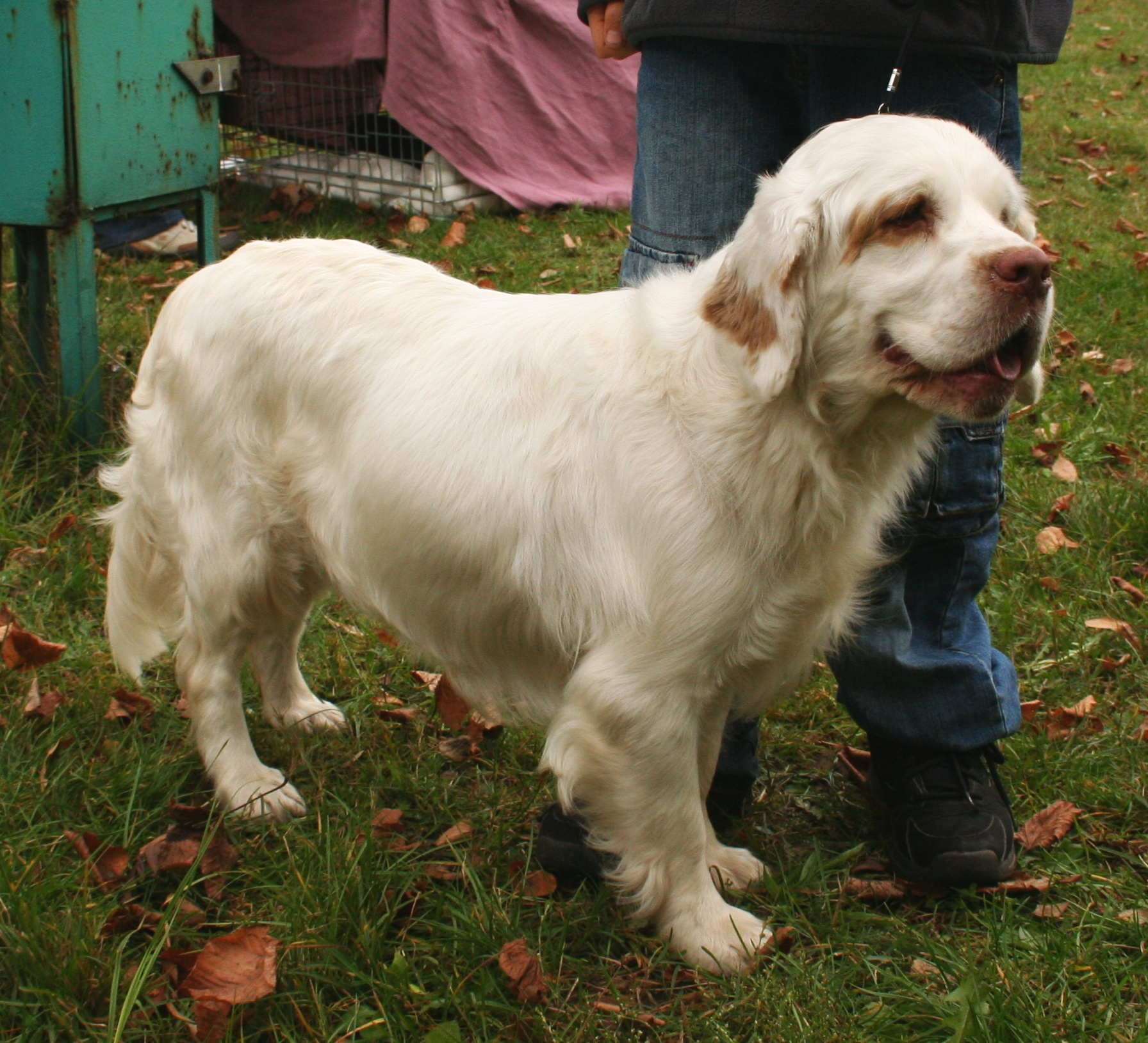 Clumber Spaniel during show of dogs in Rybnik - Kamień, Poland